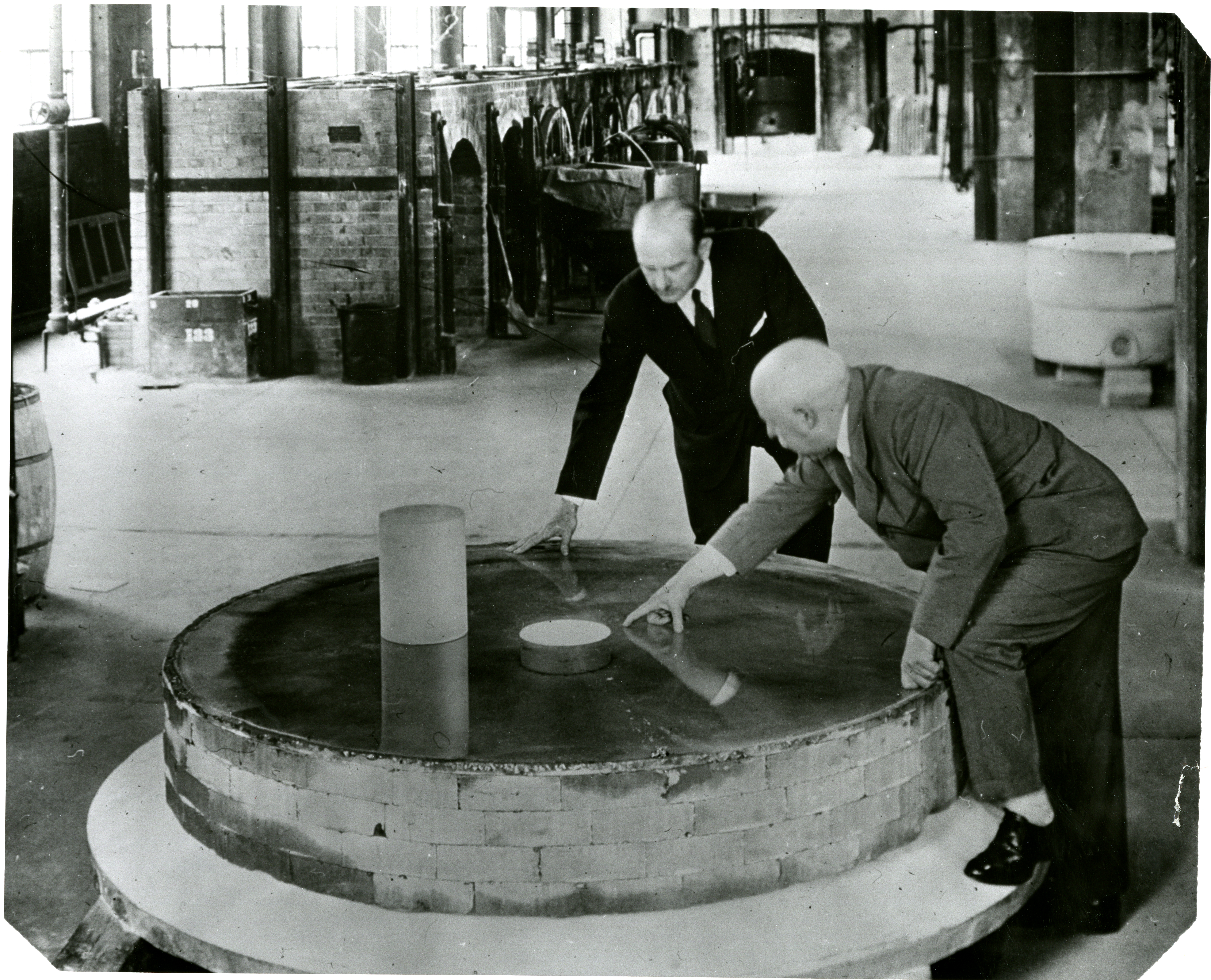 Largest disk of optical glass created in the United States as of 1928. The mold for this disk was specifically designed for this purpose and was at the same time a carefully insulated annealing furnace provided with electrical heating elements for controlling the temperatures during cooling. The glass was poured at 2400 degrees Fahrenheit. Eight months were required for cooling and annealing. The disk weighed about 4,000 pounds, was 11 inches thick, and made from borosilicate crown glass. It was intended for use at the Perkins Observatory of Delaware, Ohio.